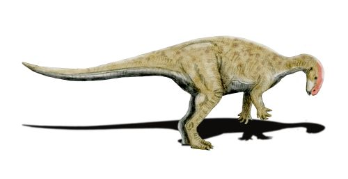 Restoration of Cumnoria prestwichii